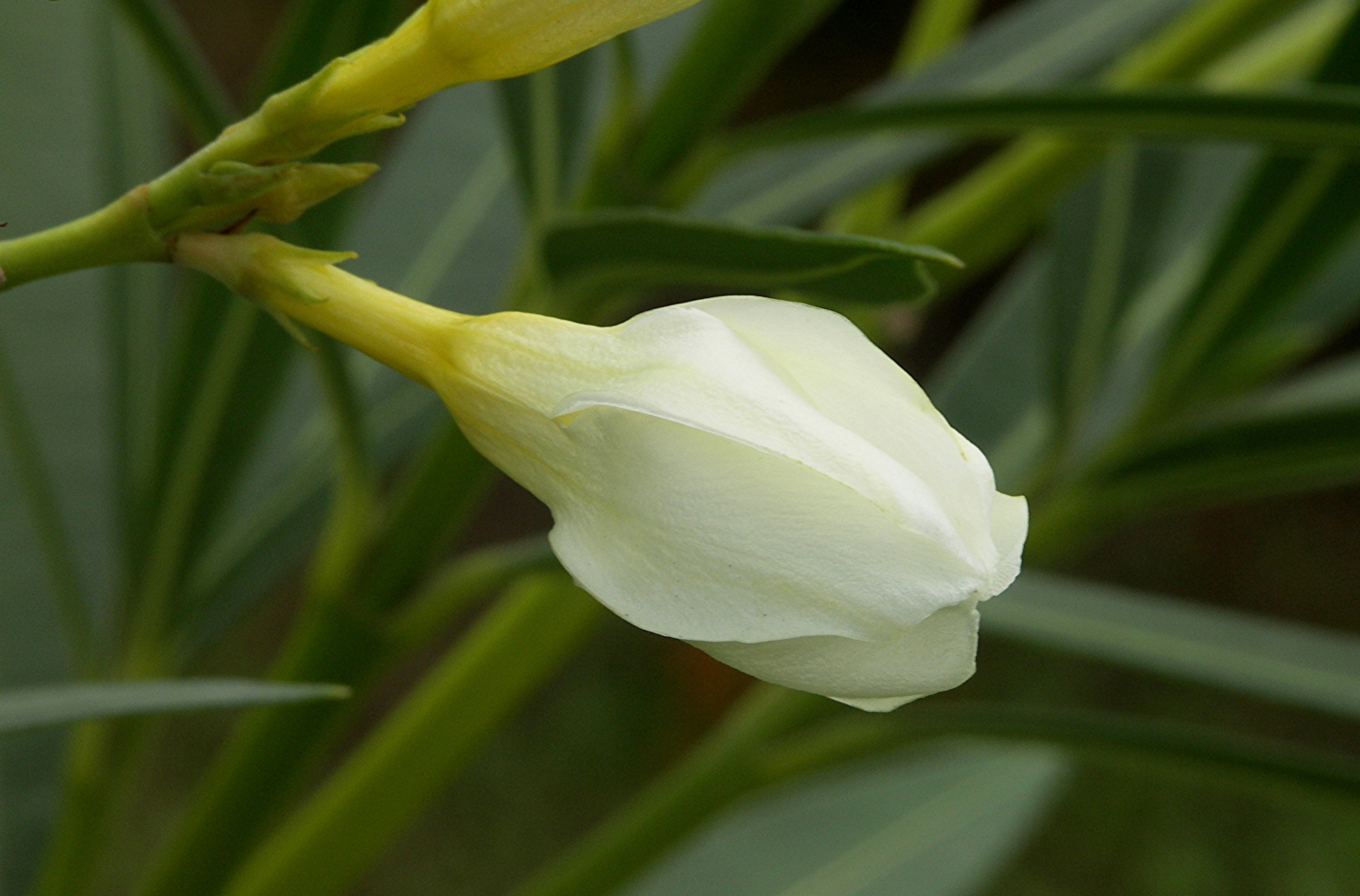 Bud of an oleander (Nerium oleander).